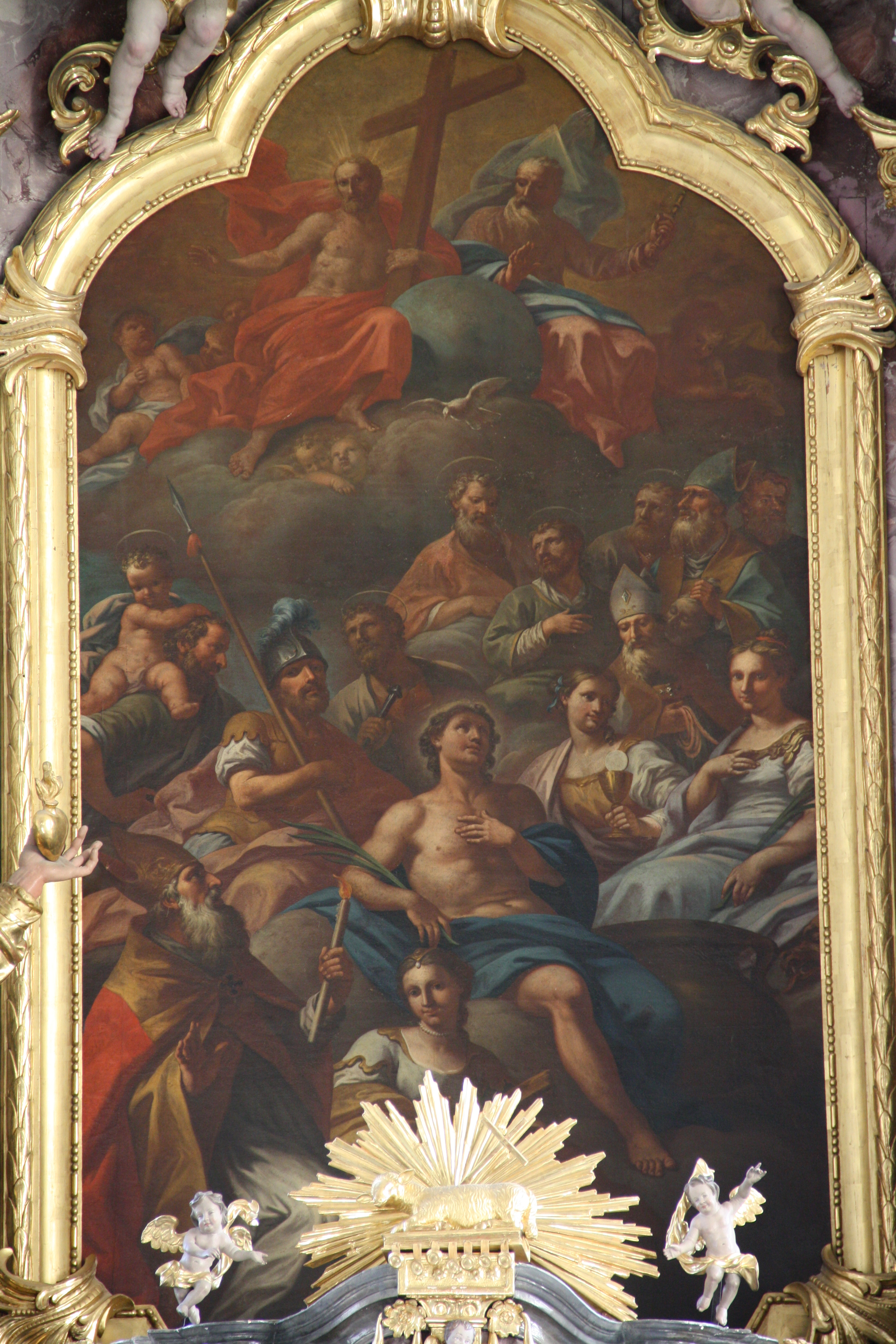 The high altar-piece represents St. Veit at the centre surrounded by fourteen helpers and at the top the Trinity